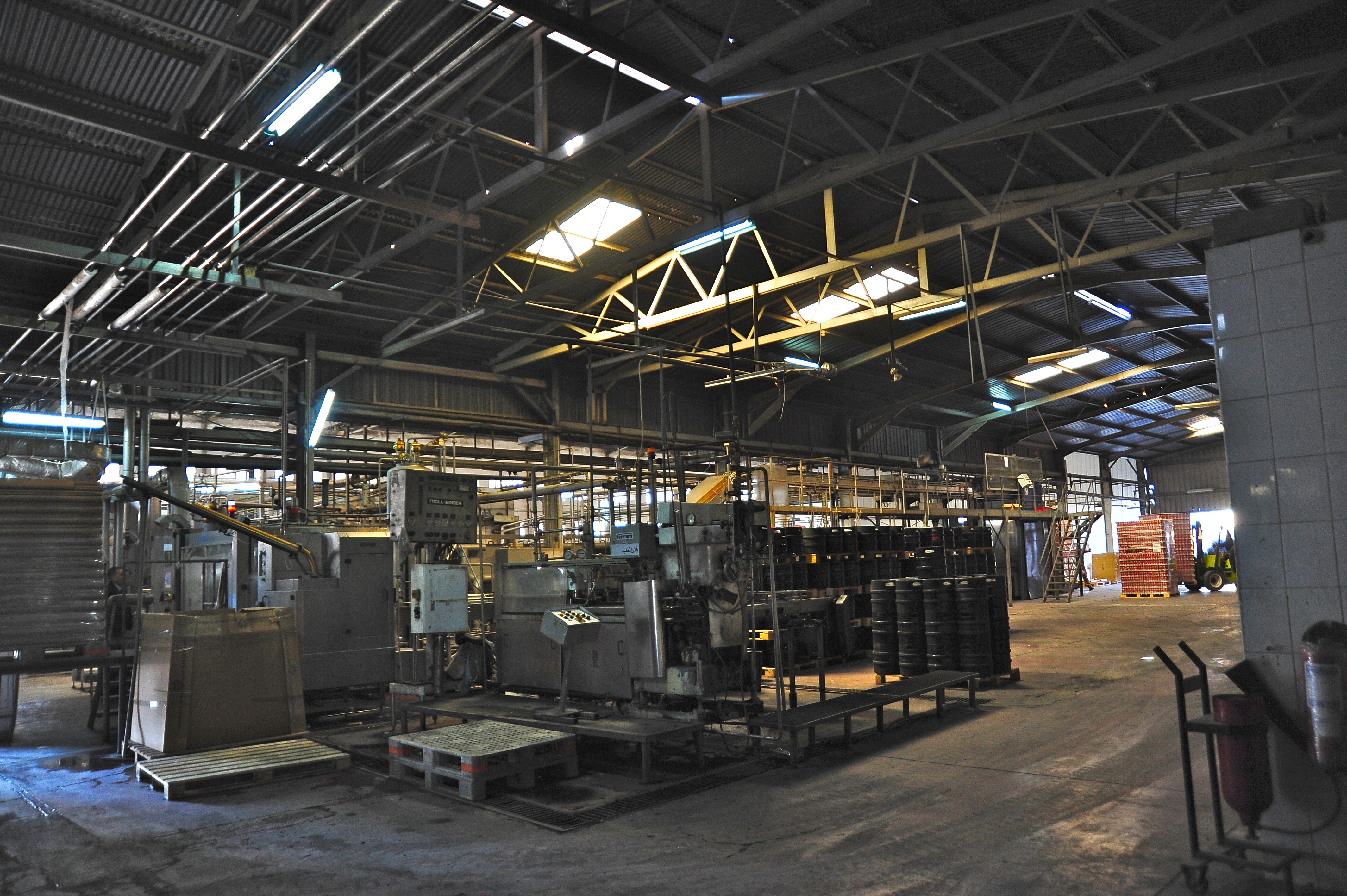 شركة مصانع البيرة العربية المساهمة المحدودة حي الزهراء شارع الامير محمد الزرقاء الزرقاء. A Brewery in Jordan